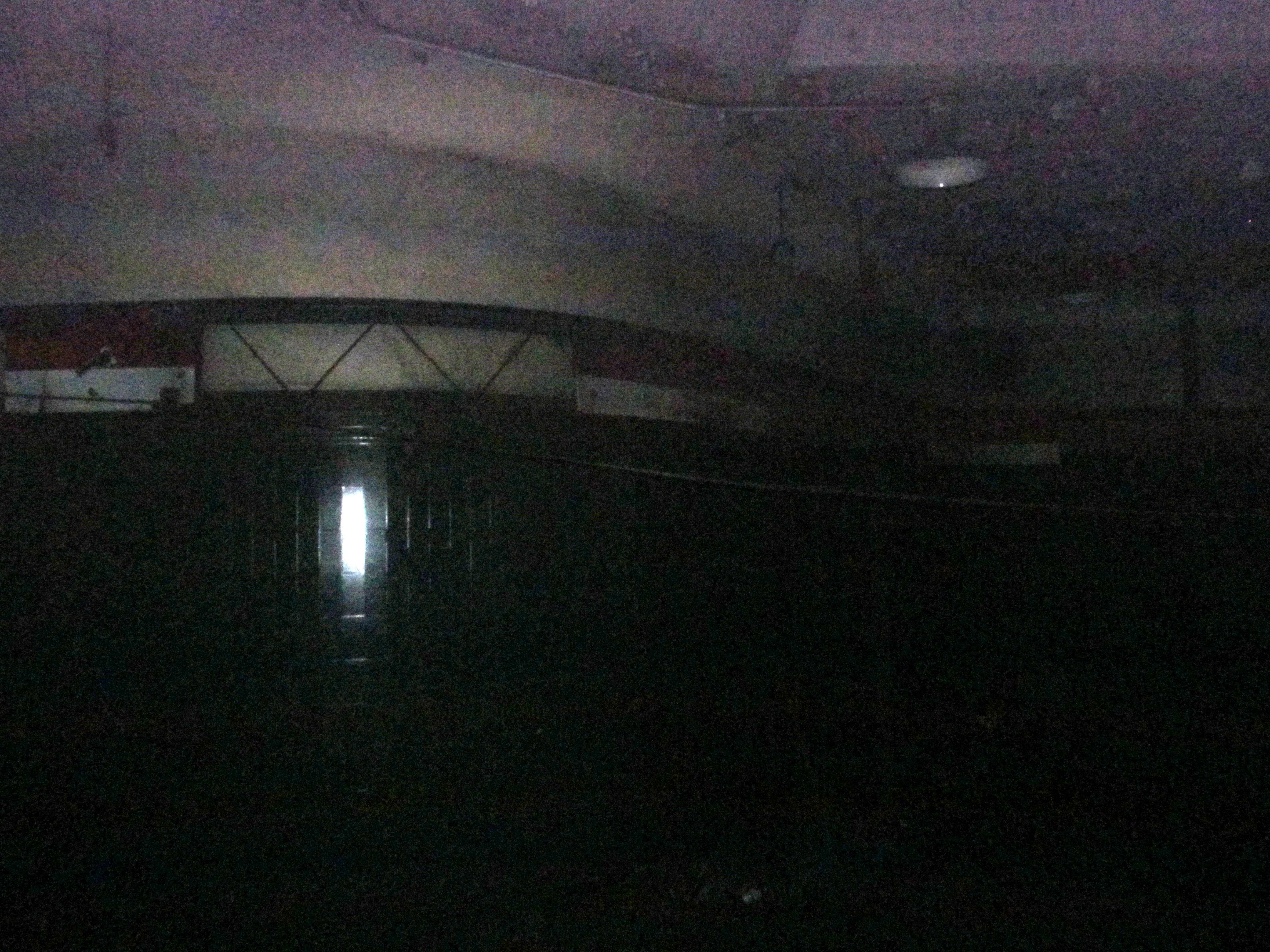 The old outbound platform at Harvard now sits empty in the tunnel east of the modern station. This photo was taken on the 100th anniversary of its opening. The right side of the photo is the passage to the former exit at the Wadsworth House.